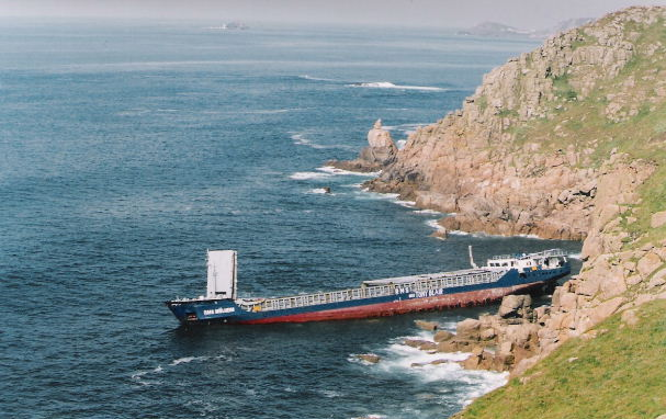 Wreck of the RMS Mülheim off Lands End